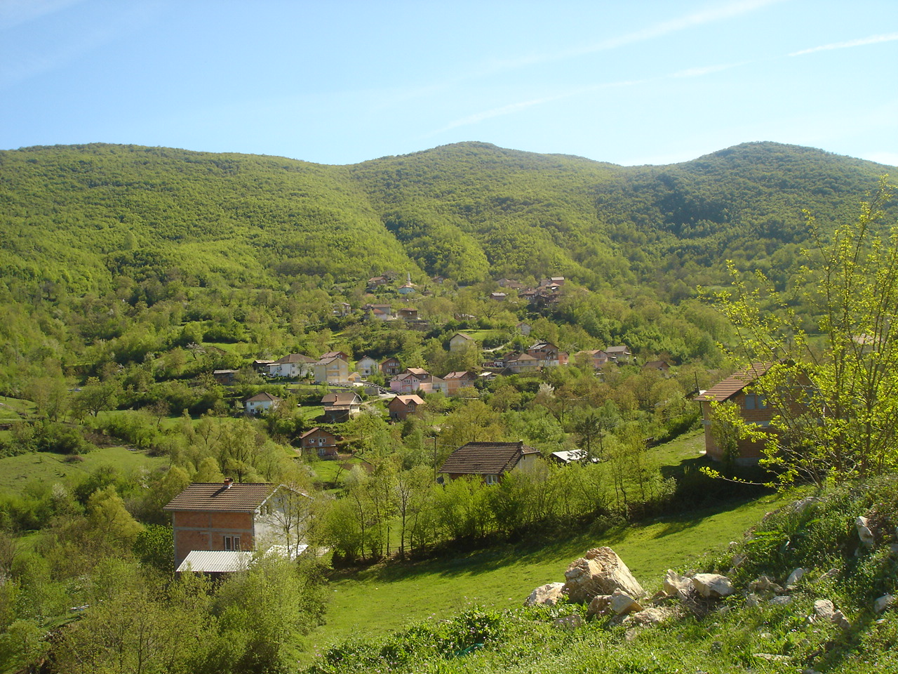 Village of Otišani, near Debar, Macedonia